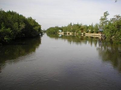 Raja Hitam River (Sungai Raja Hitam) in Changkat Keruing